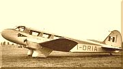 Italian Caproni Ca.308 Borea ("North Wind") airliner